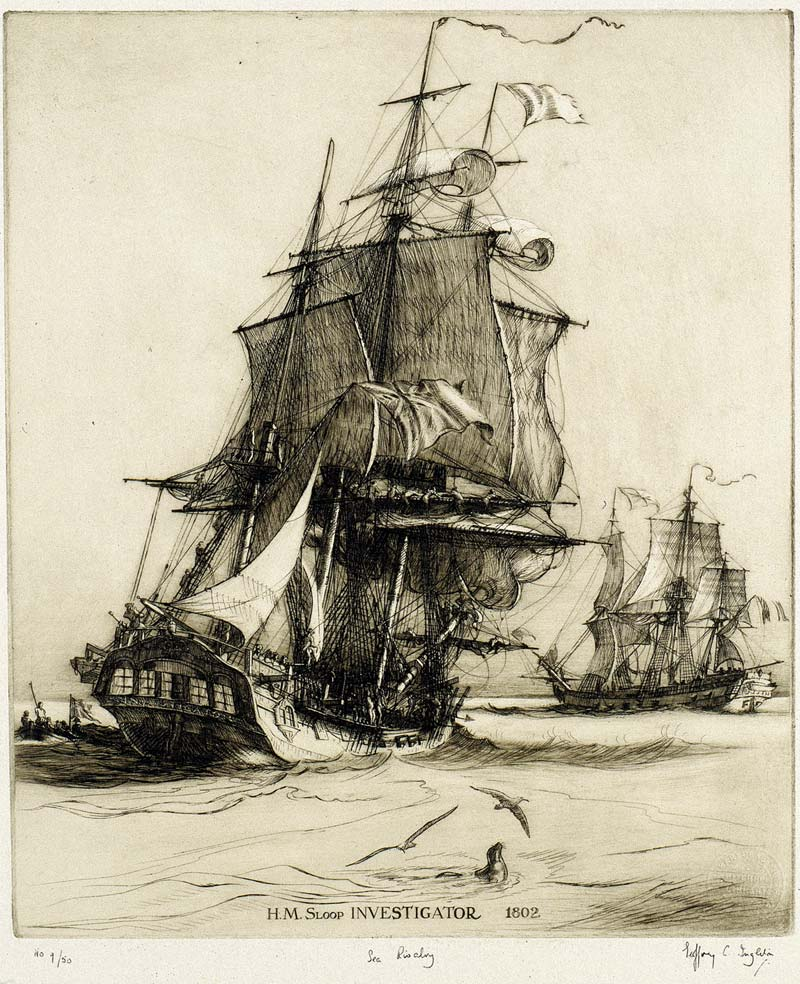 HM Sloop Investigator: etching by Geoffrey Ingleton, 1937